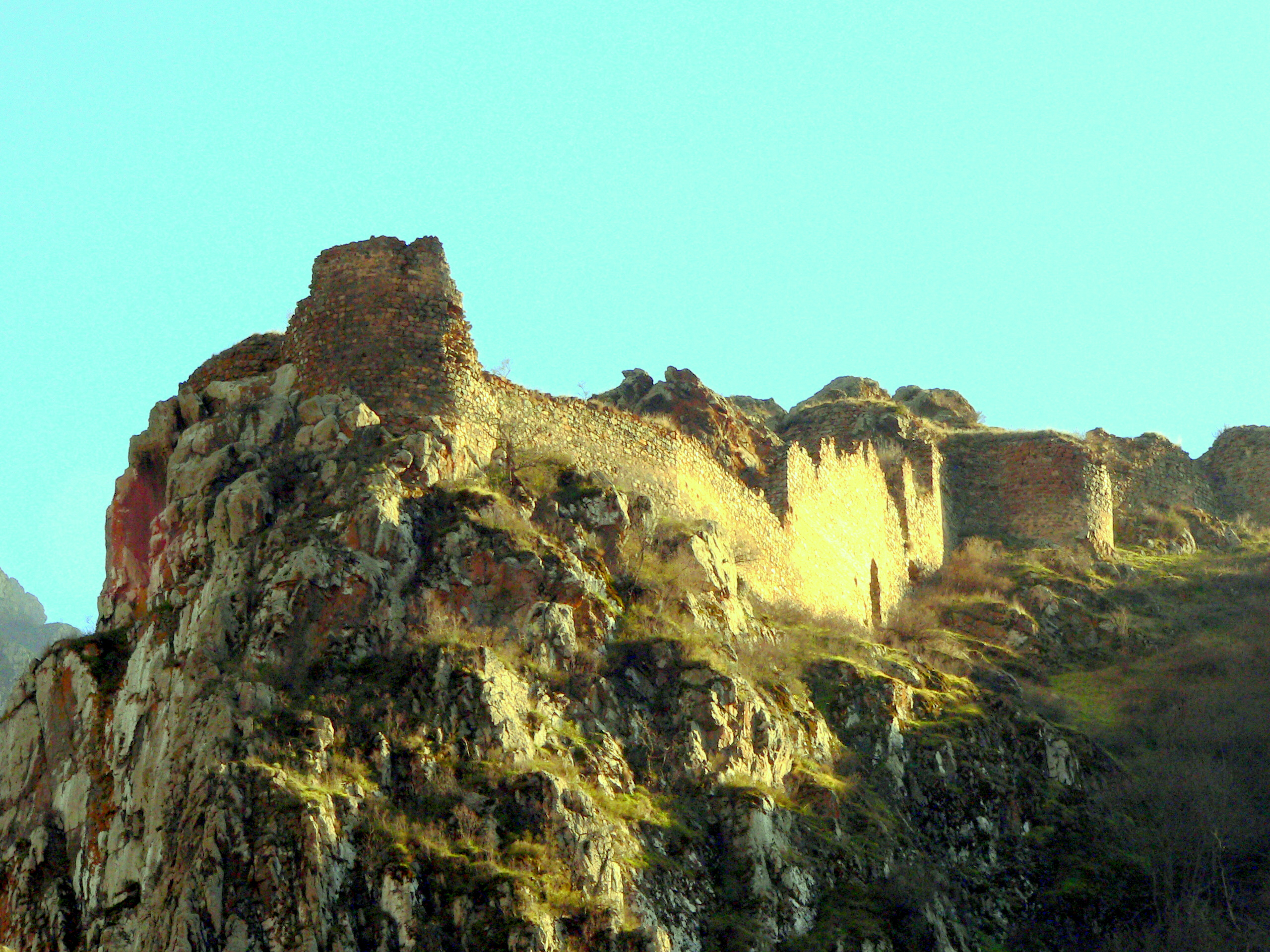 Bagahberd fortress ruins. Syunik. Armenia.